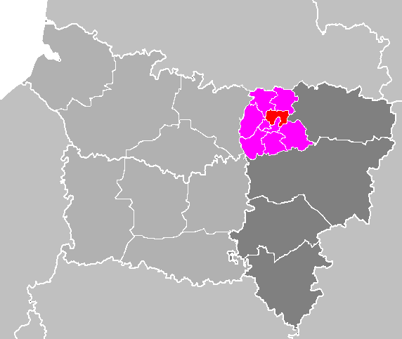 Maps of arrondissements and cantons of France